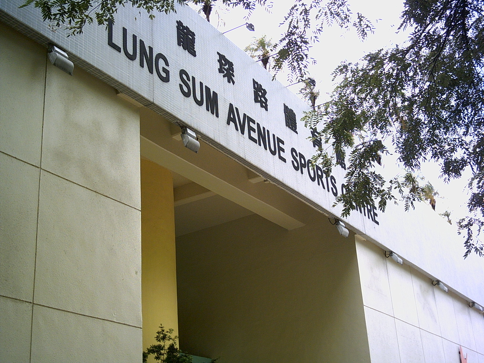 Lung Sum Avenue Sports Centre. Taken by myself in August, 2006.